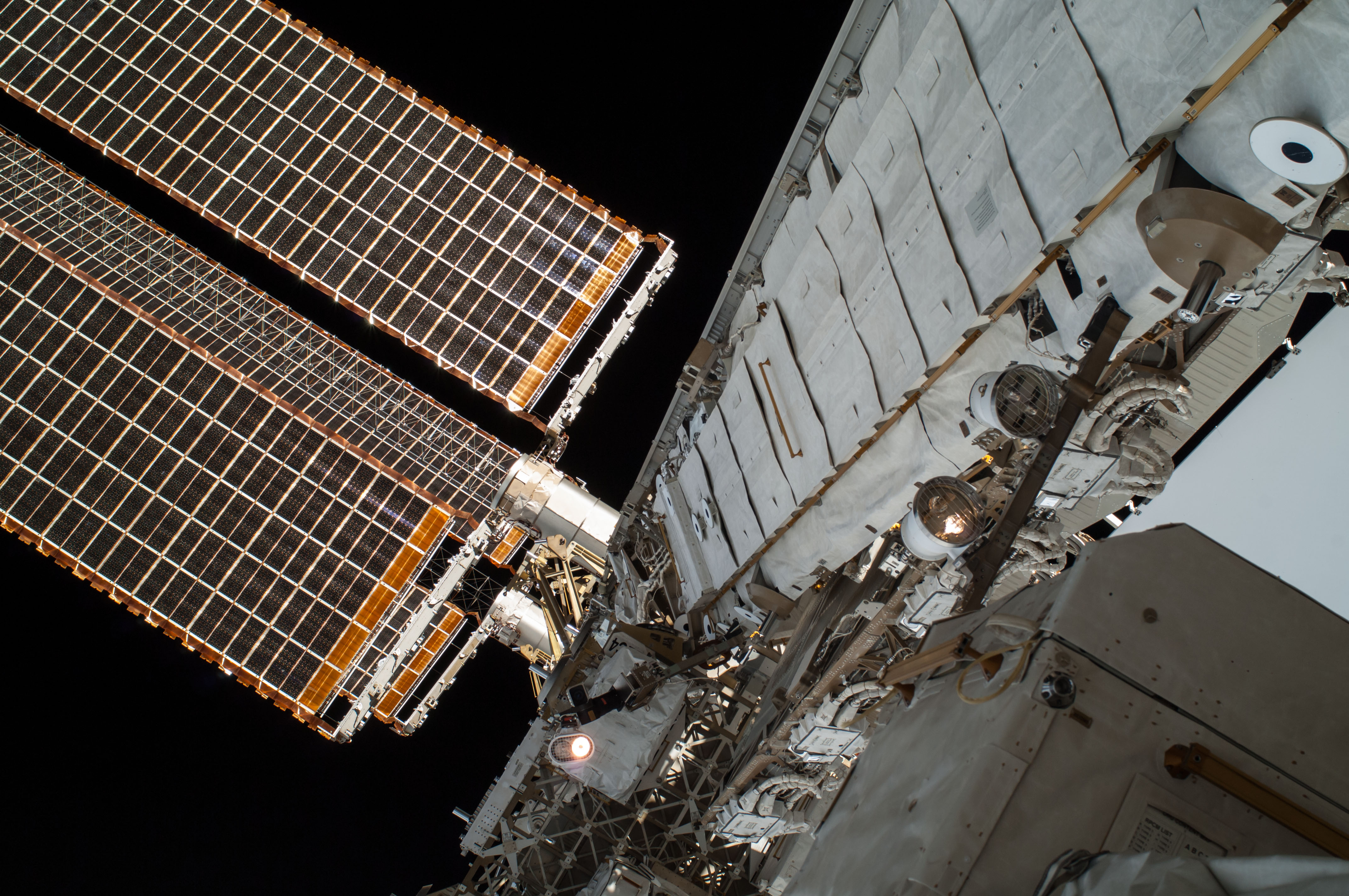 Wide view of the International Space Station's solar arrays, connected to its 110 meter long stainless steel and aluminum truss framework. Several panels are clad in Kevlar for micrometeoroid shielding